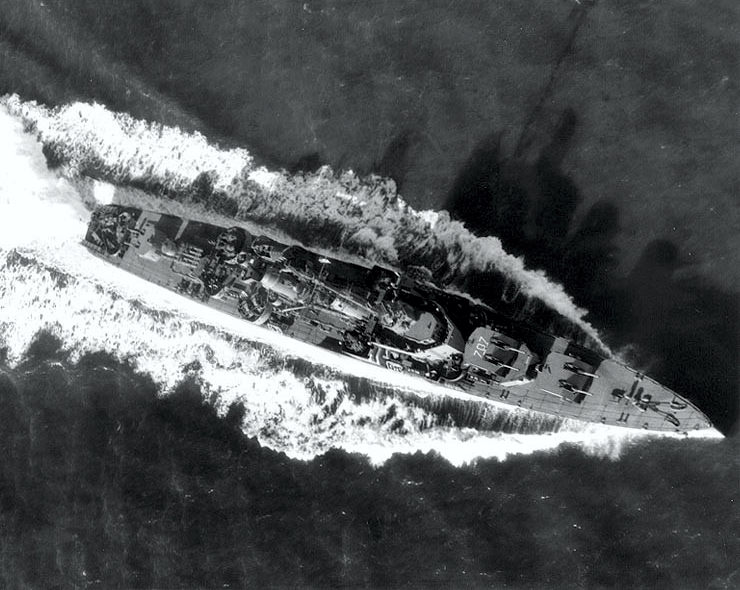 The U.S. Navy destroyer USS Soley (DD-707) underway on 22 December 1944. Photographed from a Naval Air Station New York (USA), aircraft, flying at an altitude of 180 metres (600 feet). Note ship's shadow on the water off her port side.